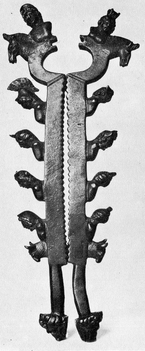 The goddess Cybele was a great mother goddess adopted by Rome from Asia Minor. Her worship, like Isis, was popular amongst women. The worship of Cybele had emotional appeal, offering salvation and priests of the goddess castrated themselves in her service. A bronze castration clamp found in the Thames at London Bridge, is believed to have been used in the cult of Cybele. The clamp is decorated with busts of Cybele and her lover Attis while busts of other Roman deities represent the days of the week.